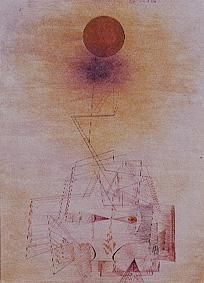 This image is of Paul Klee's 1927 painting Grenzen des Verstandes (Limits of Reason) from the permanent collection of the Pinakothek der Moderne. The Pinakothek has licensed this image with CC BY-SA 4.0 Creative Commons Attribution-ShareAlike 4.0 International (CC BY-SA 4.0) I am currently creating the article Limits_of_Reason_(Paul_Klee)starting with a draft in my sandbox Limits_of_Reason_(Paul_Klee)